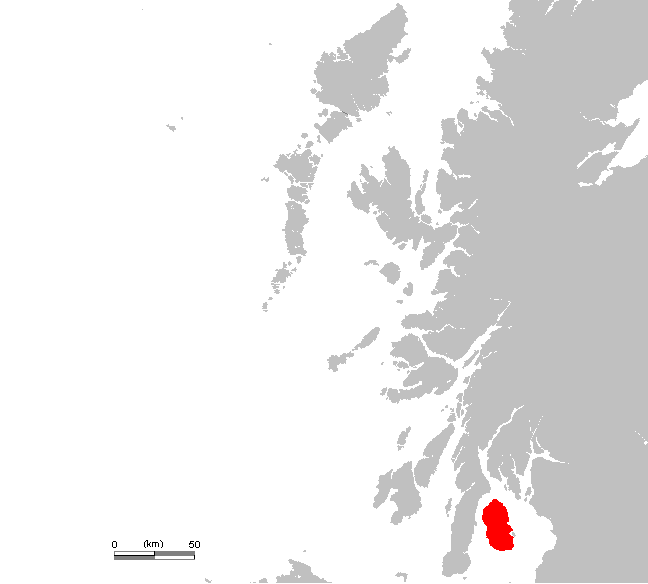 UK Arran.PNG (Scotland, Hebrides)